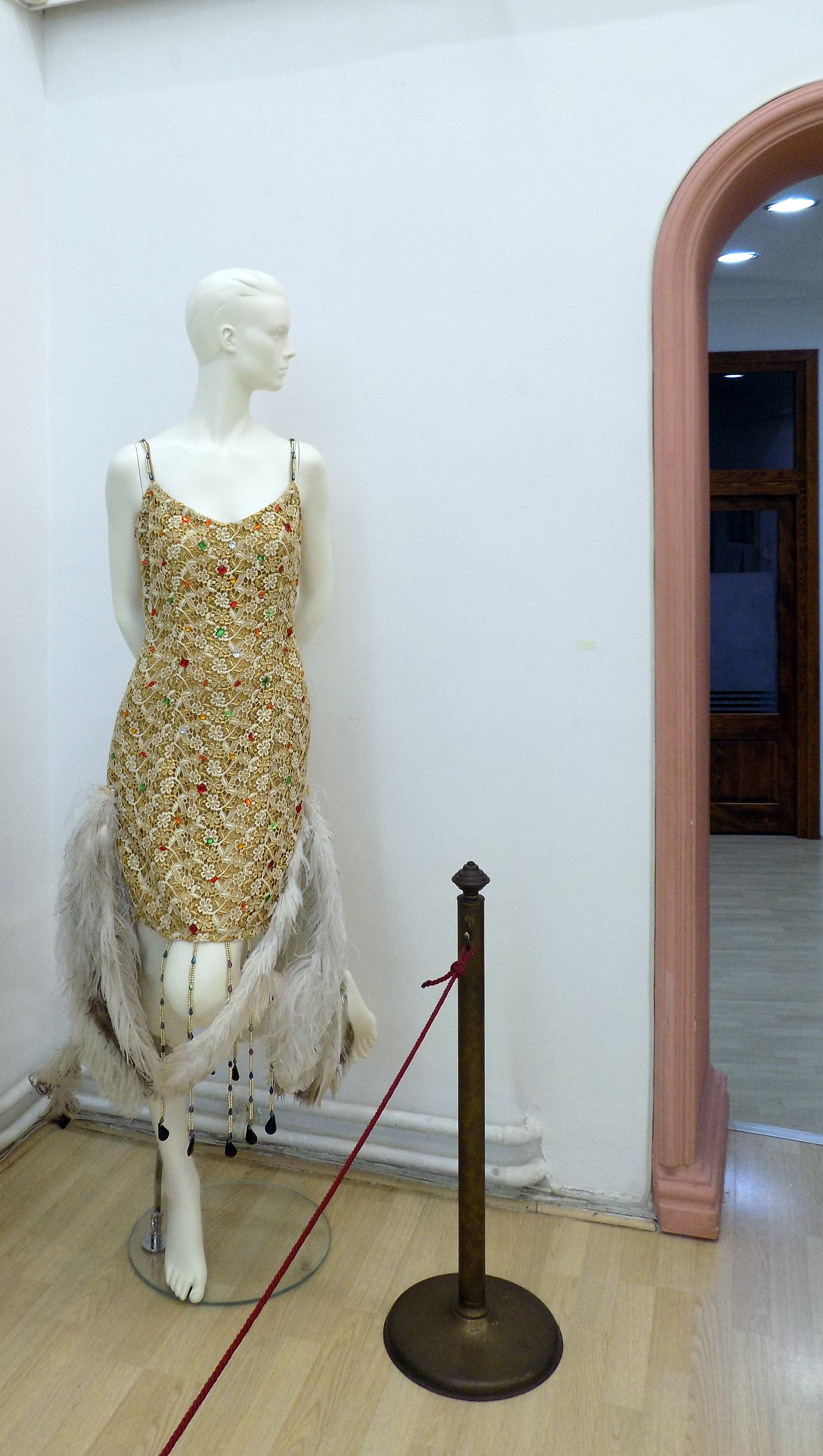 Milena Pavlović-Barili Gallery (Milena's home) - One of about twenty models that Milena created